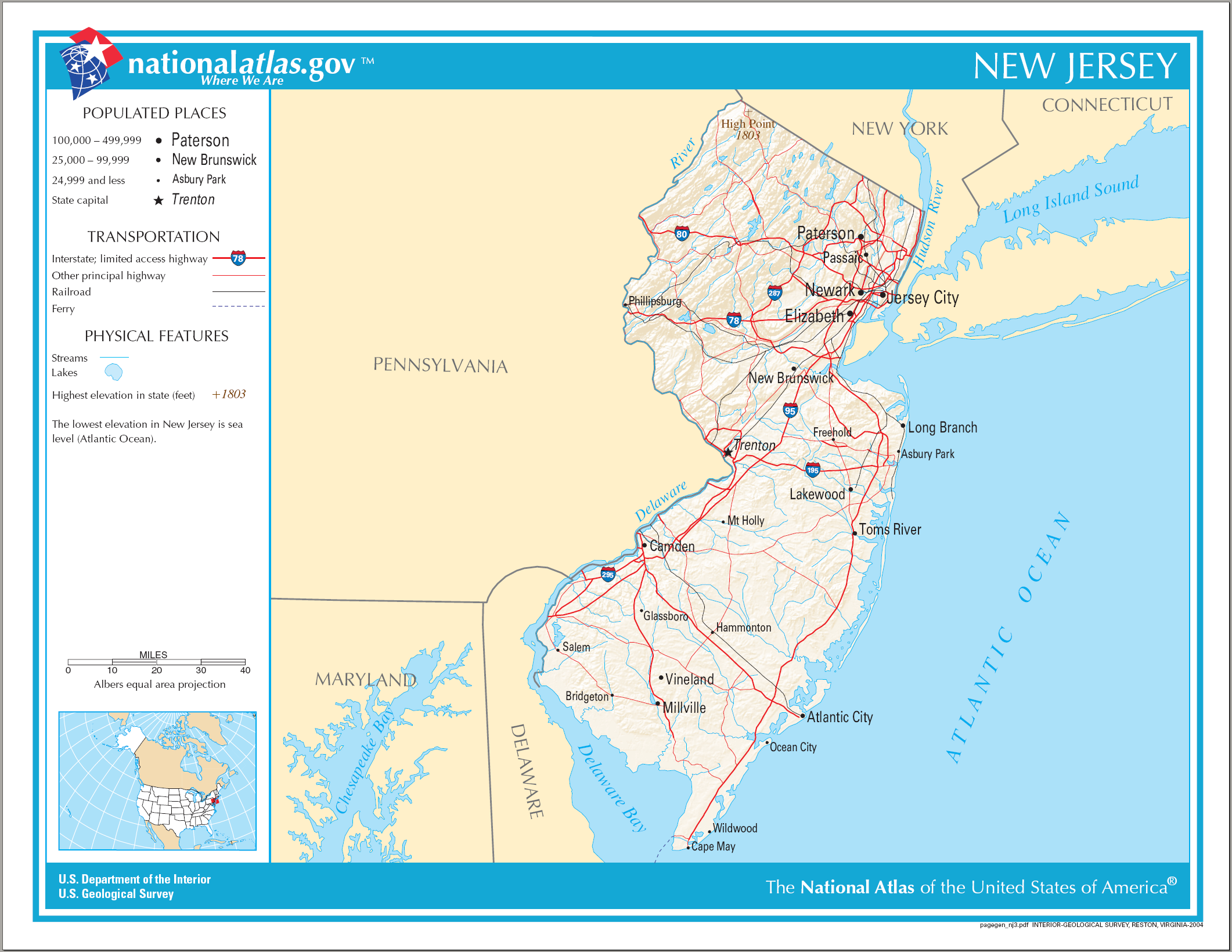 Map of New Jersey